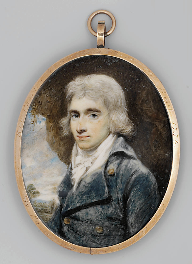 It's a miniature of Sir Charles Herbert Sheffield, 1st Baronet (in blue double-breasted coat with gold buttons and white knotted cravat; draped brown curtain and landscape background) painted by James Nixon.